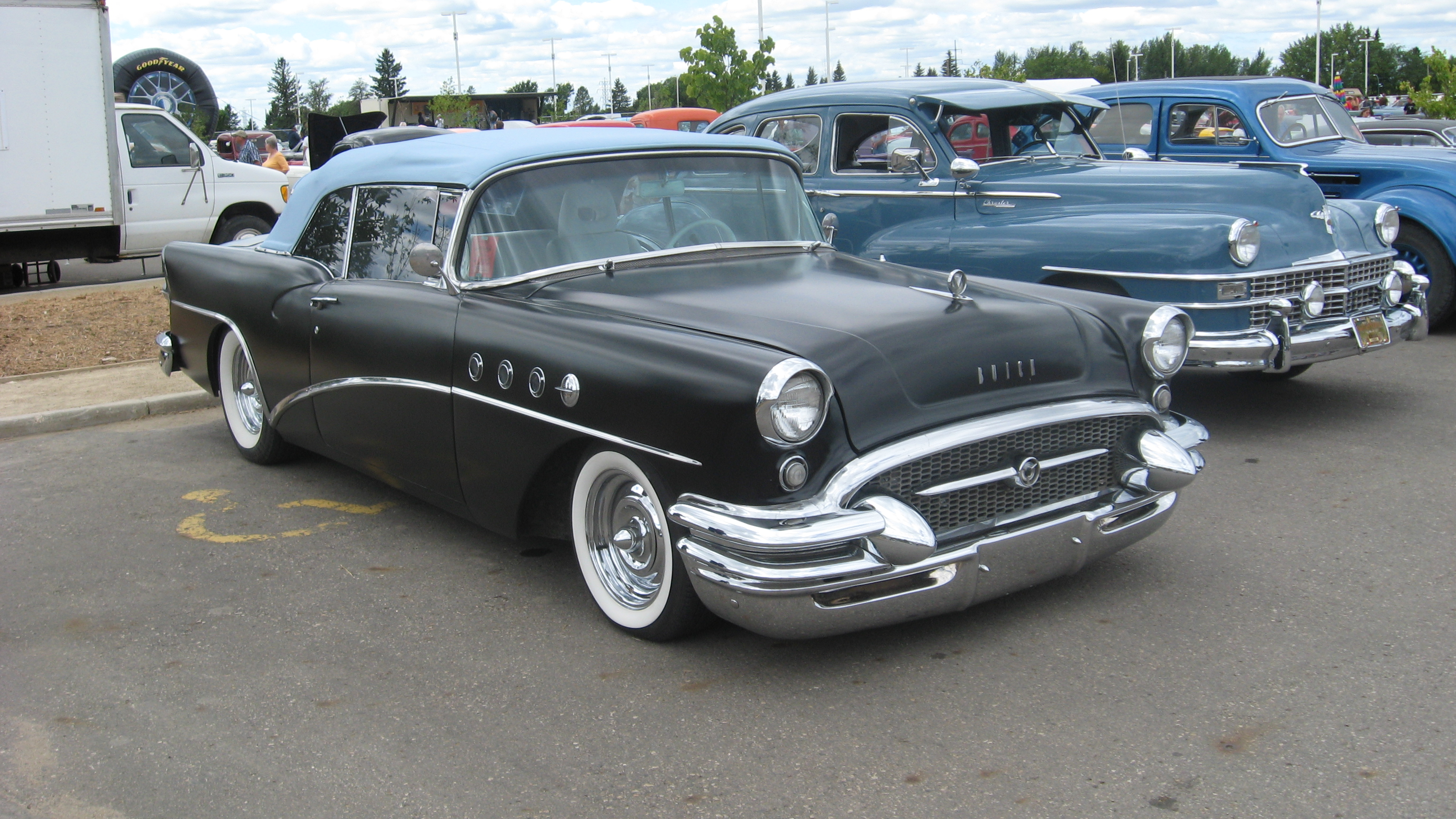 restored 1955 Buick Century Series 60 Model 66C 2-door Convertible Coupe, shot at local car show/swap meet